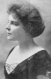 A young white woman, hair dressed up off neck and shoulders, wearing a gown with a wide and low neckline.